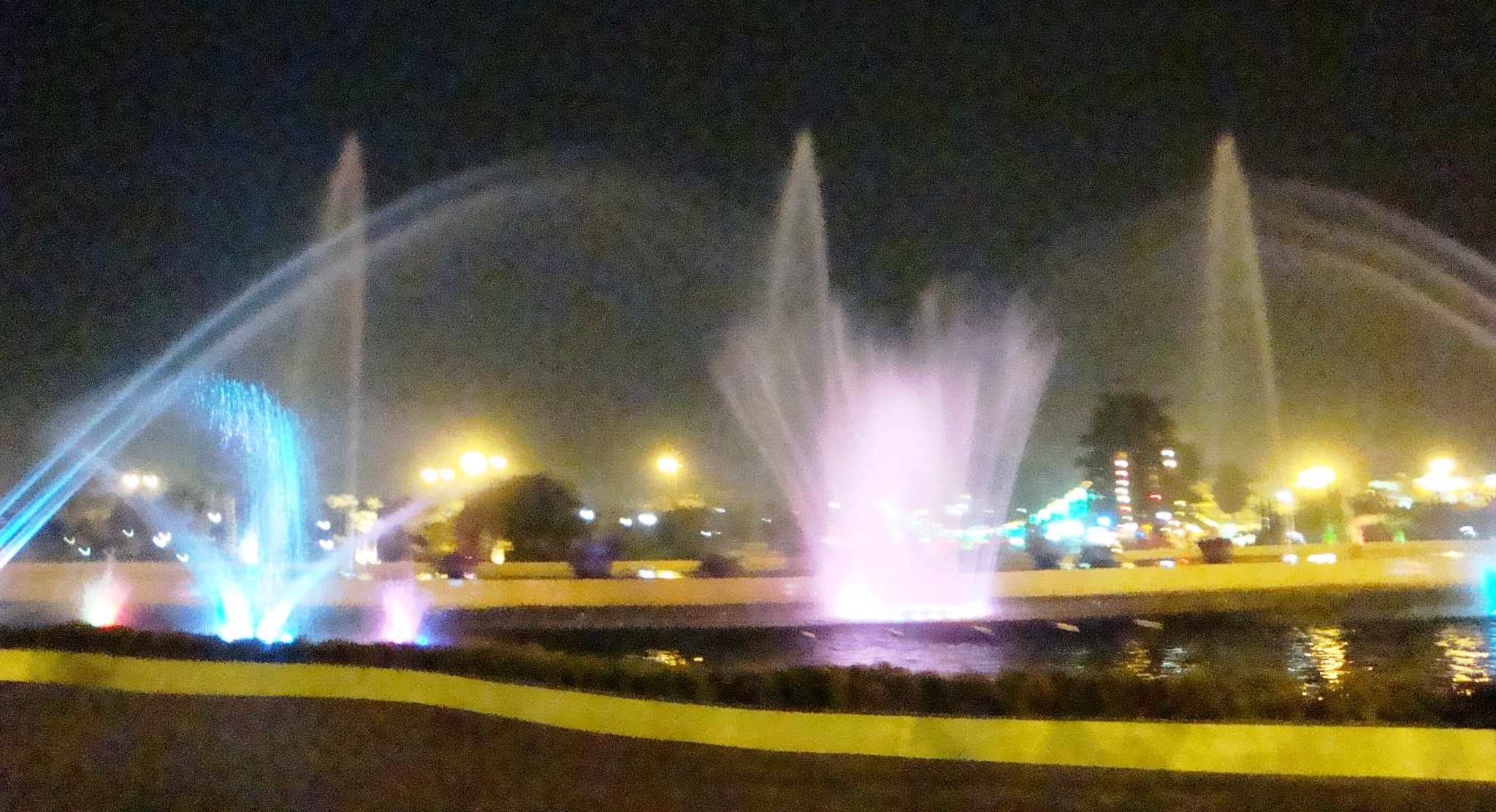 Naypyidaw, Naypyidaw Capital Region, Myanmar: Water Fountain Garden.